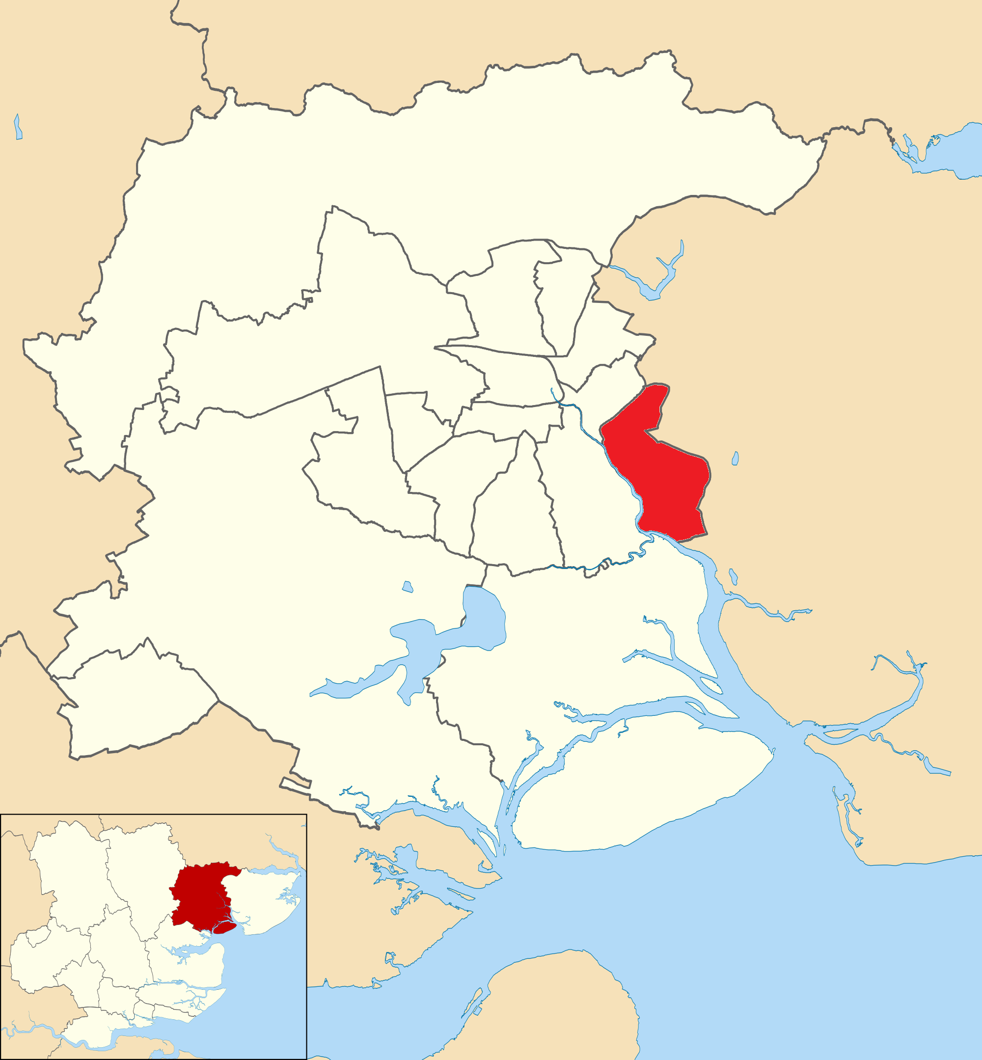 Wivenhoe ward highlighted within Colchester Borough